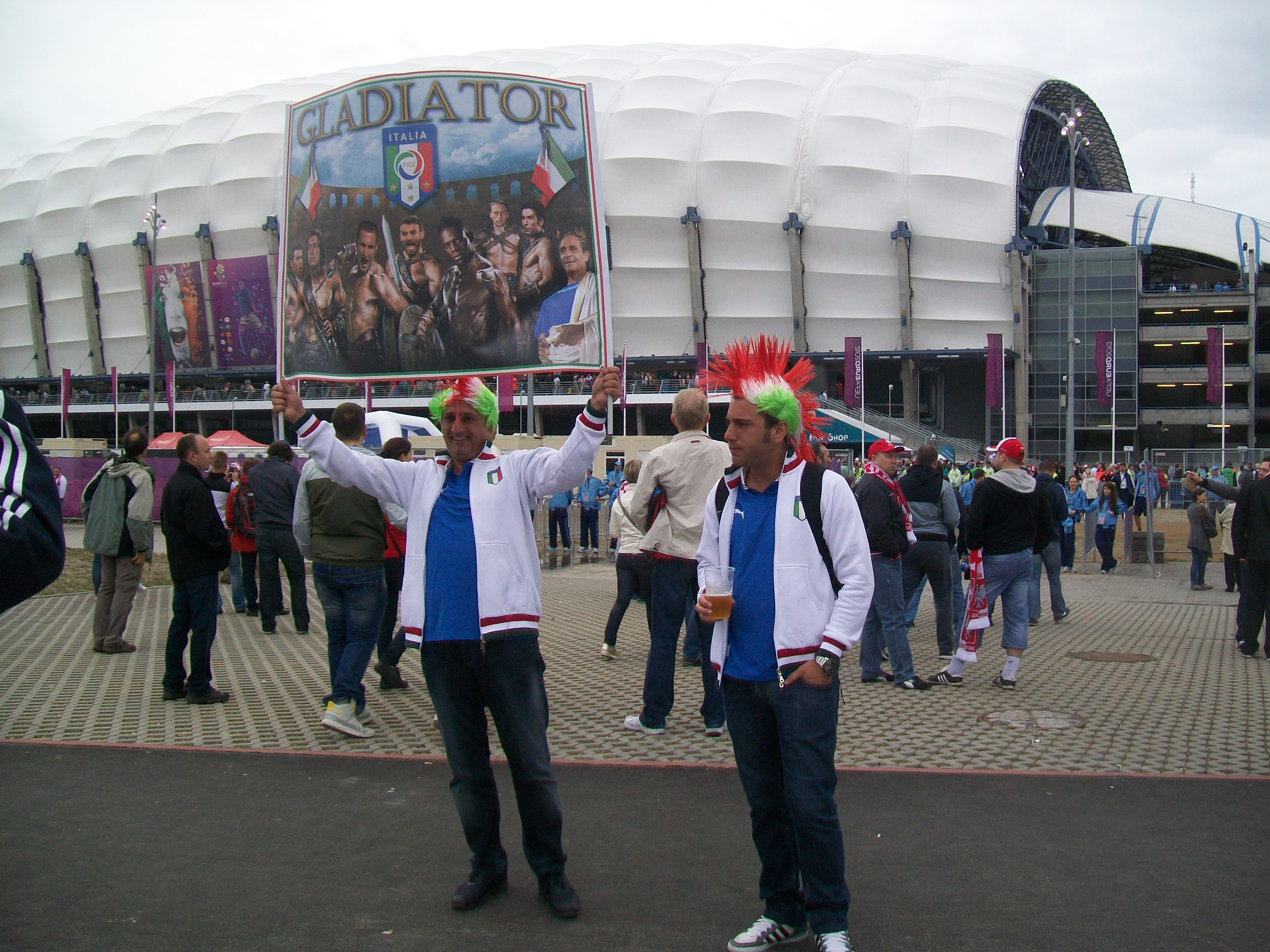 Italian supporters before Croatia - Italy match during Euro 2012, Poznań, June 14